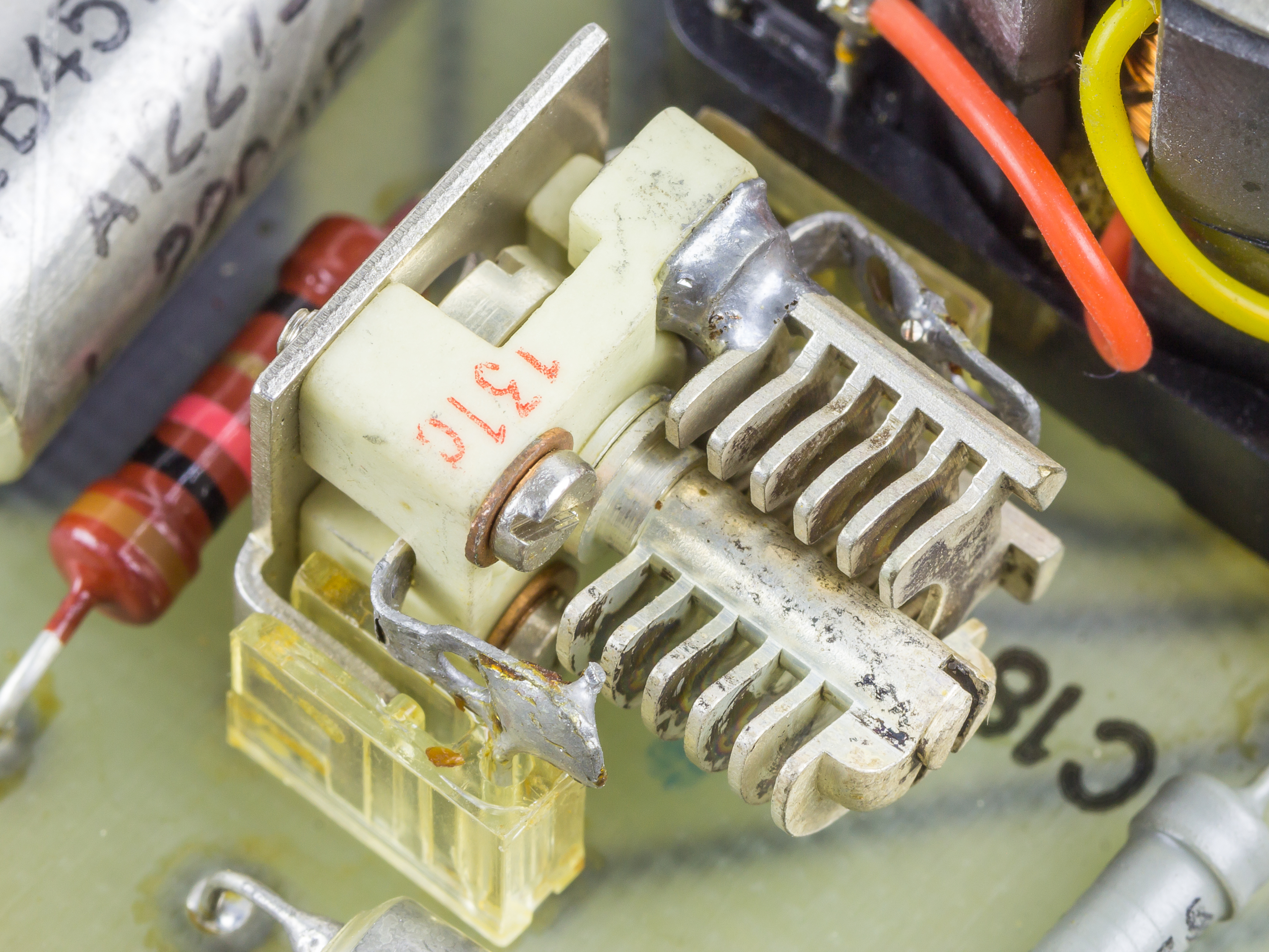 Siemens Rel 37 D 94a/5 - Variable capacitor